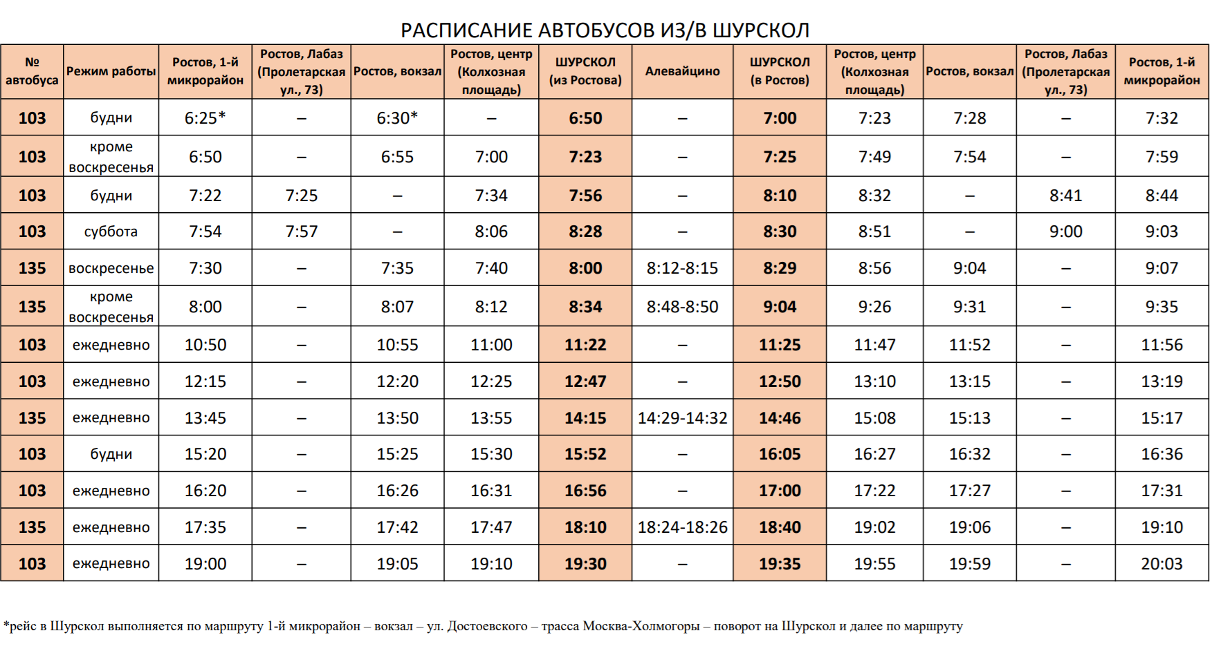 Current bus schedule 103 and 135 Rostov Bogoslov Puzhbol Poddybye Shurskol Cheremoshnik Antsiferovo Lomy Zhoglovo Pashino Dubnik Zverinets Alevaytsino and back.